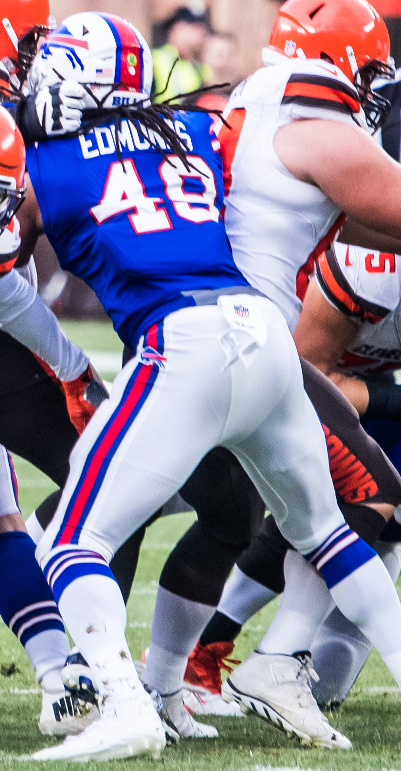 Cleveland Browns vs. Buffalo Bills